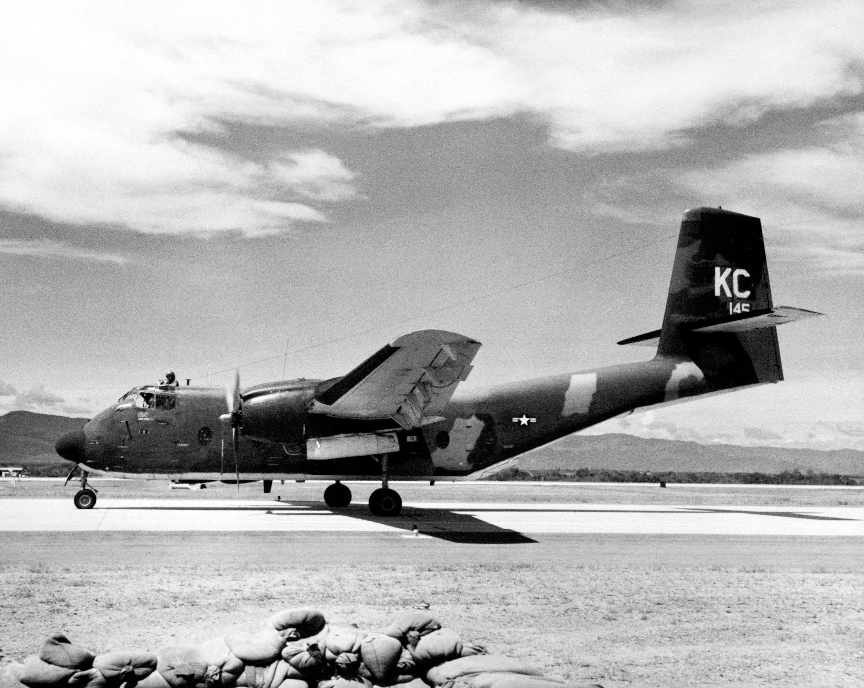 A U.S. Air Force De Havilland C-7B Caribou (s/n 62-4145) ready for take-off on 13 September 1970. This aircraft was assigned to the 458th Tactical Airlift Squadron, 458th Tactical Airlift Squadron at Cam Ranh Bay air base, South Vietnam.